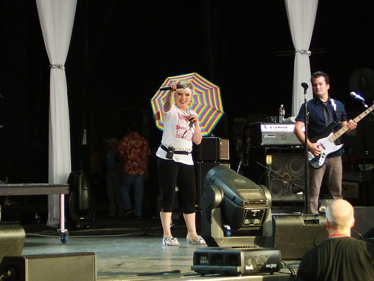 Deborah Harry